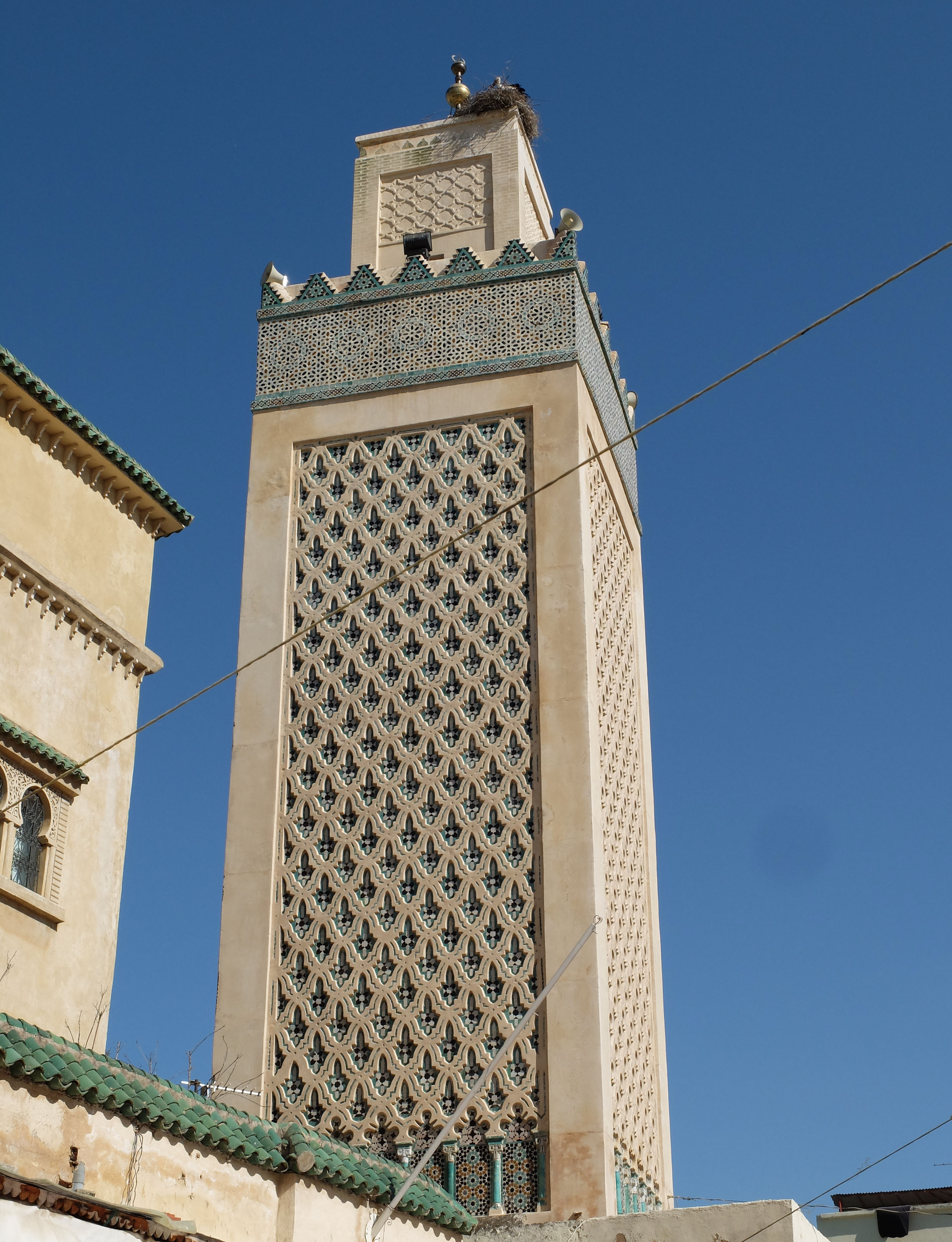 The minaret of the Hamra Mosque, Fes el-Jdid (north side).